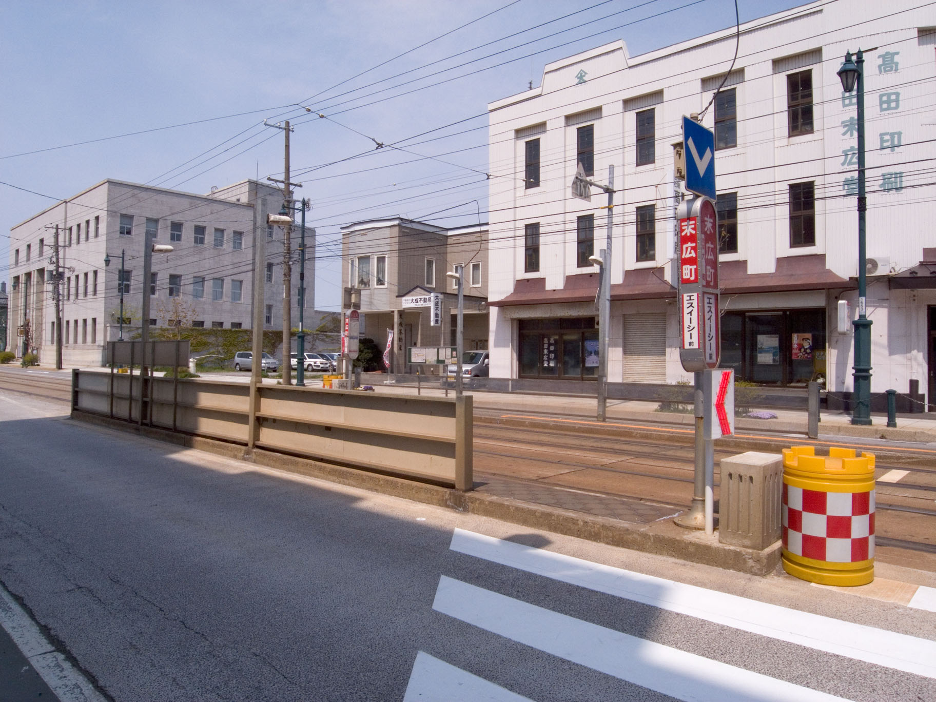 Suehirocho station in Hakodate tram, Hokkaido, Japan